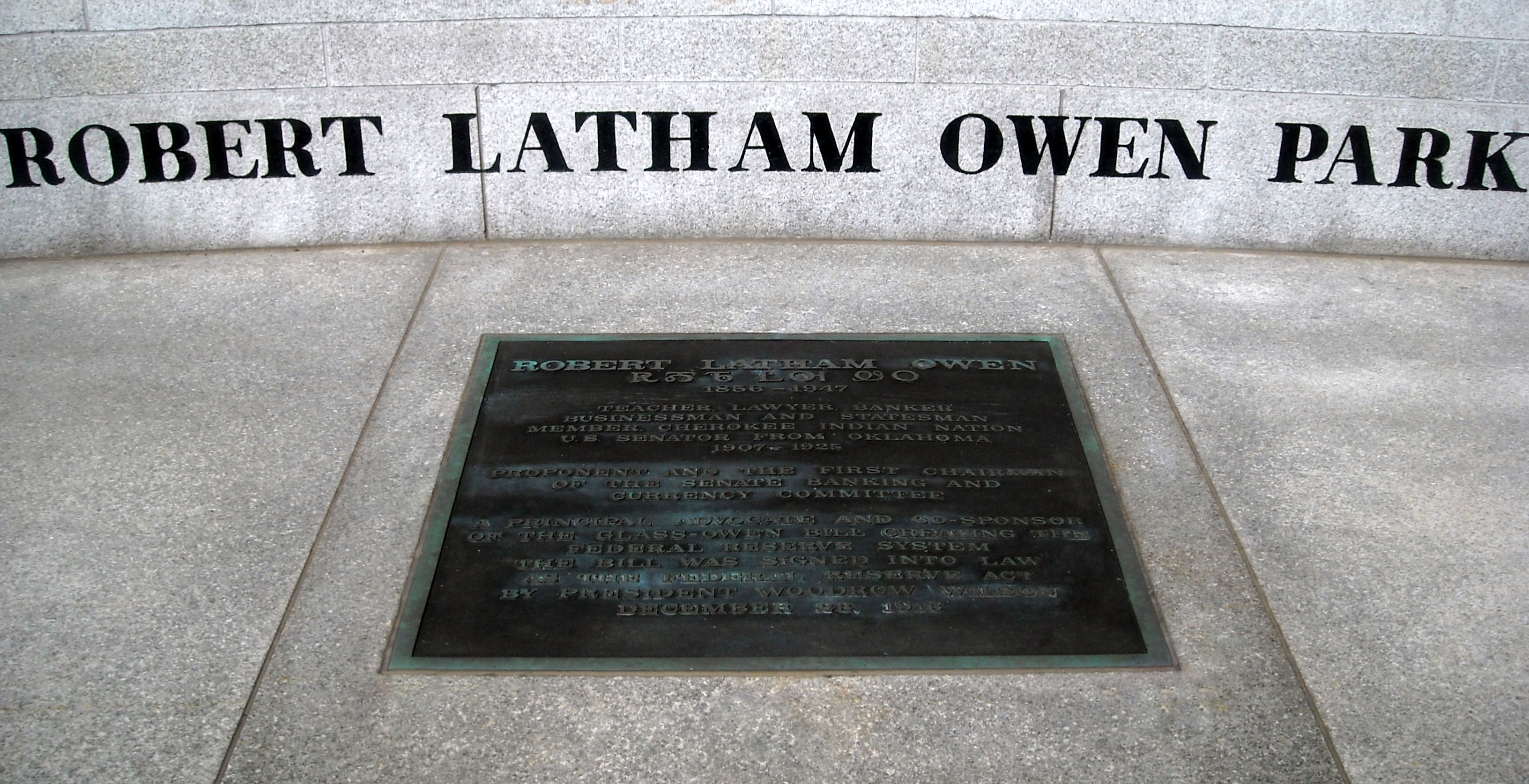 The Robert Latham Owen Park, located beside the Federal Reserve Annex at 20th & C Streets, NW in the Foggy Bottom neighborhood of Washington, D.C.